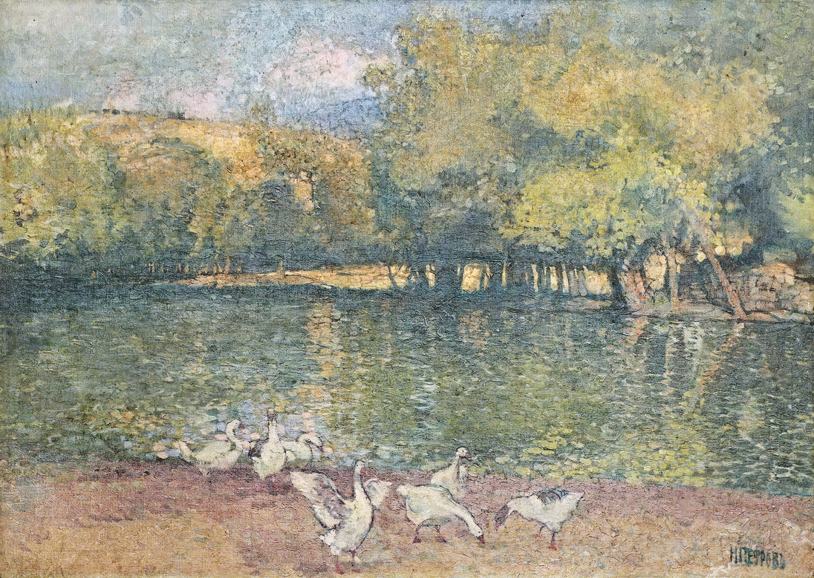 Erma river on Tran, Oil on canvas, 96x68 cm, Nikola Petrov (1881-1916), Bulgarian painter